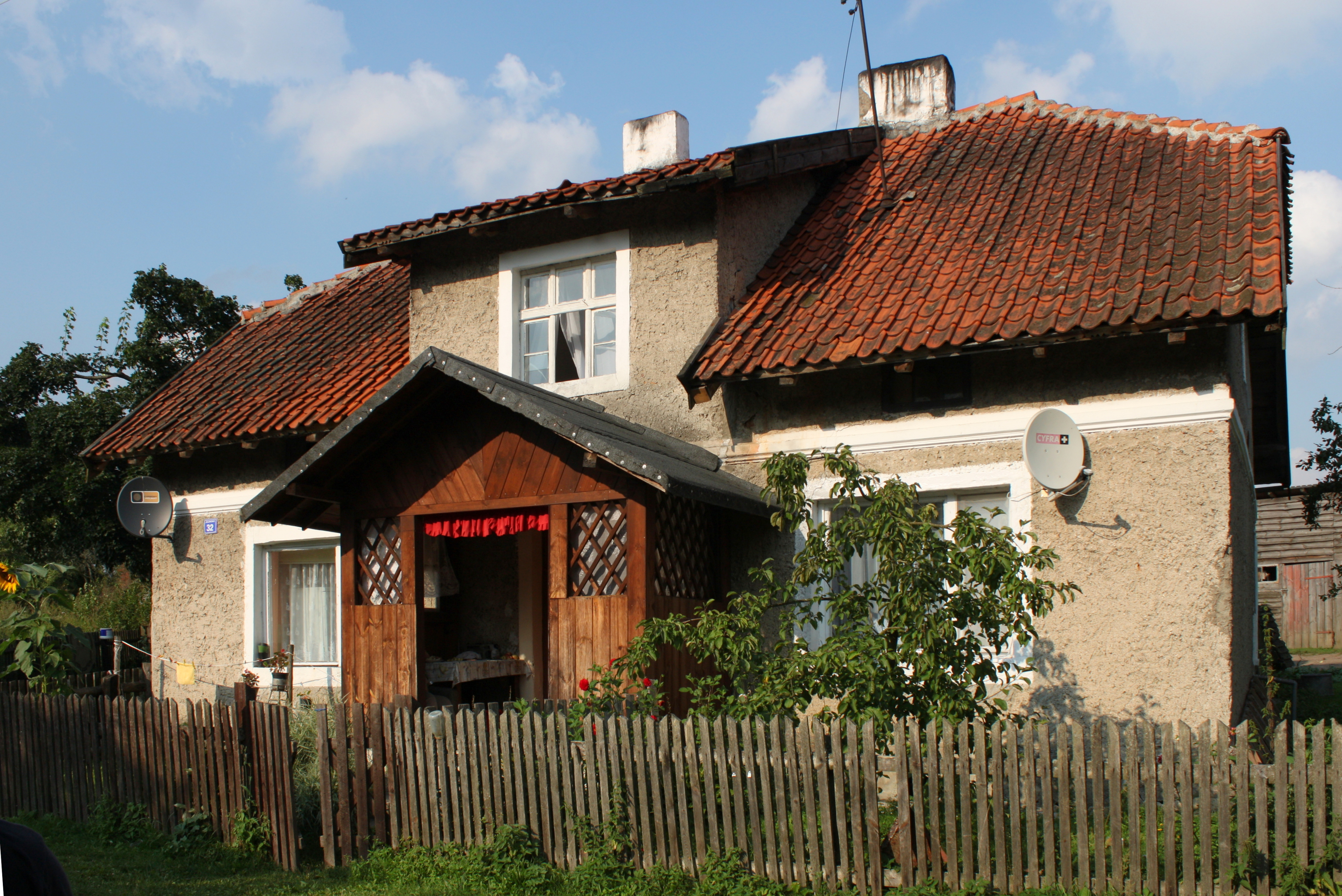 Building in Jeleniowo.